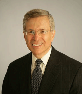 Portrait of Richard Alan Zimmer